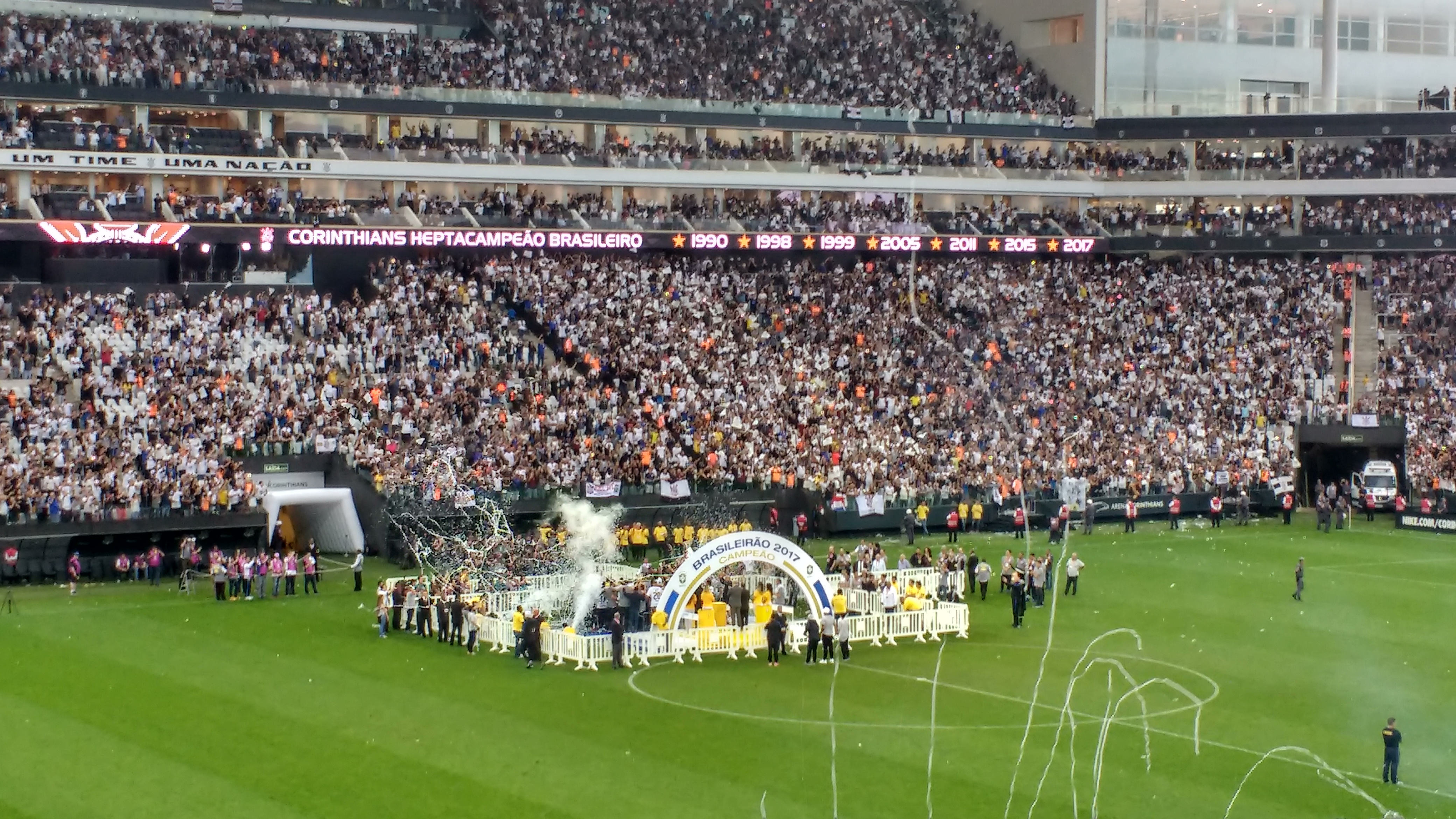 Hepta party, delivery of the Cup in the Corinthians Arena!